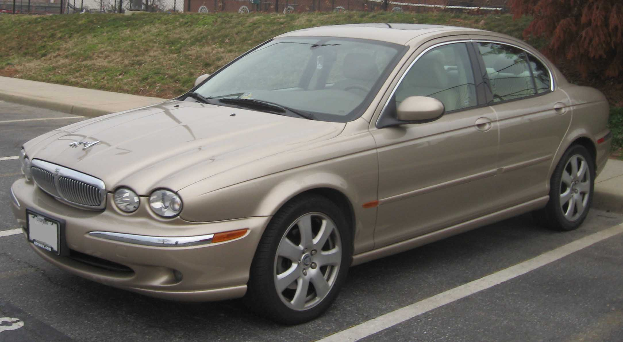 Jaguar X-Type photographed in College Park, Maryland, USA.